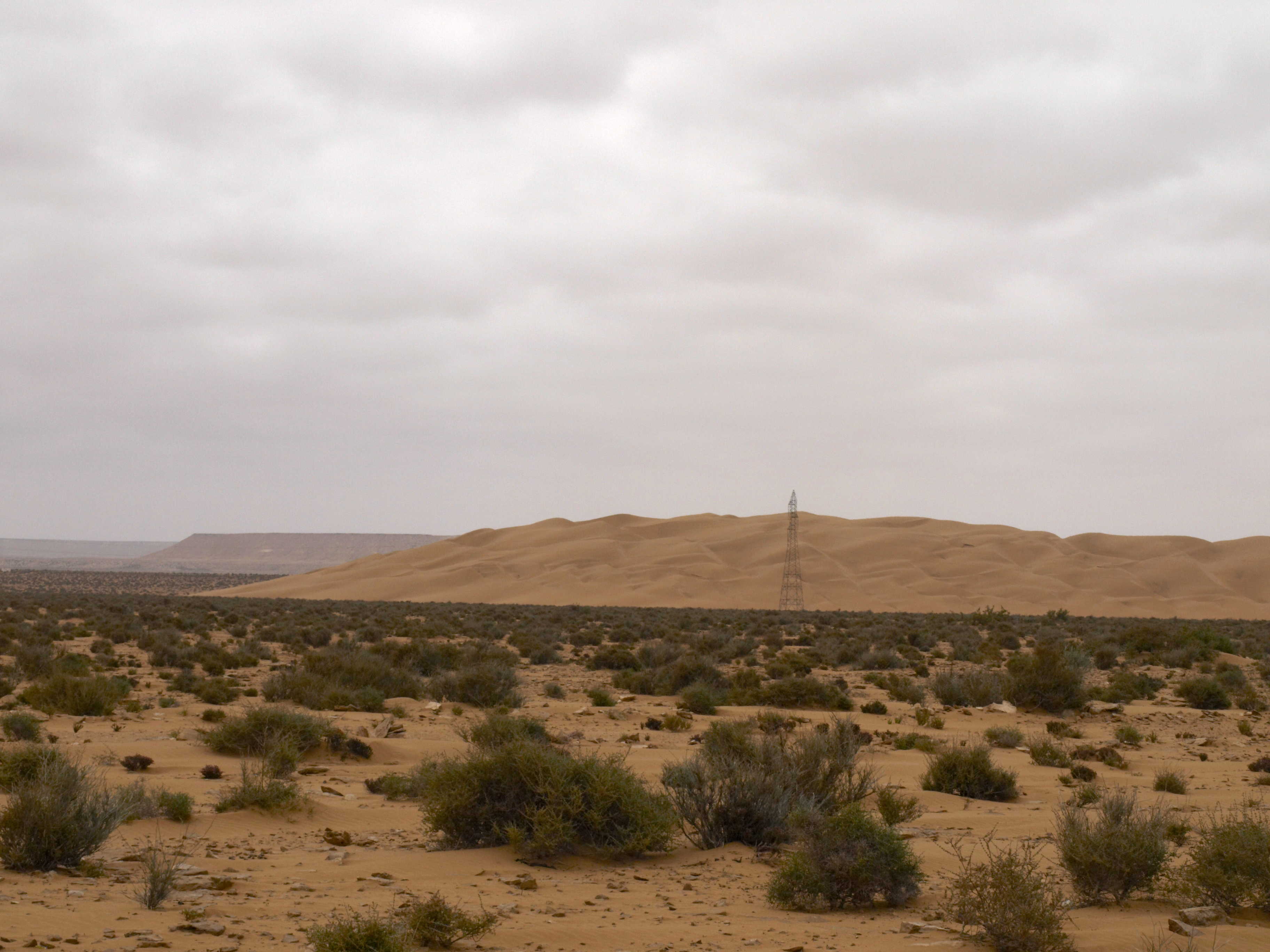 Typical landscape in Khenifiss National Park